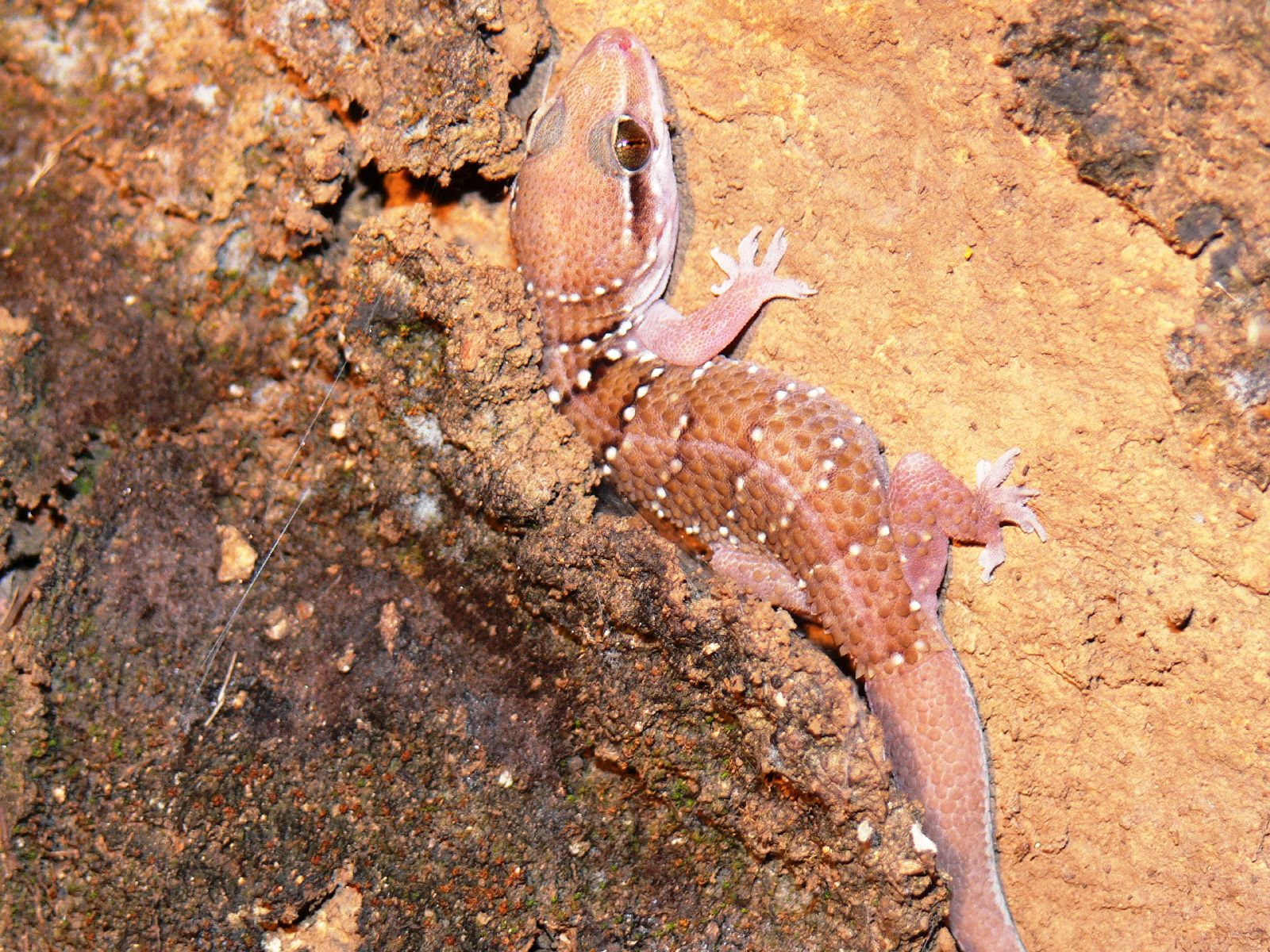 Termite Hill Gecko (Hemidactylus triedrus ) an Indian gecko